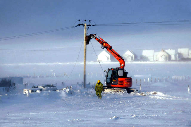 White balance corrected and retouched version